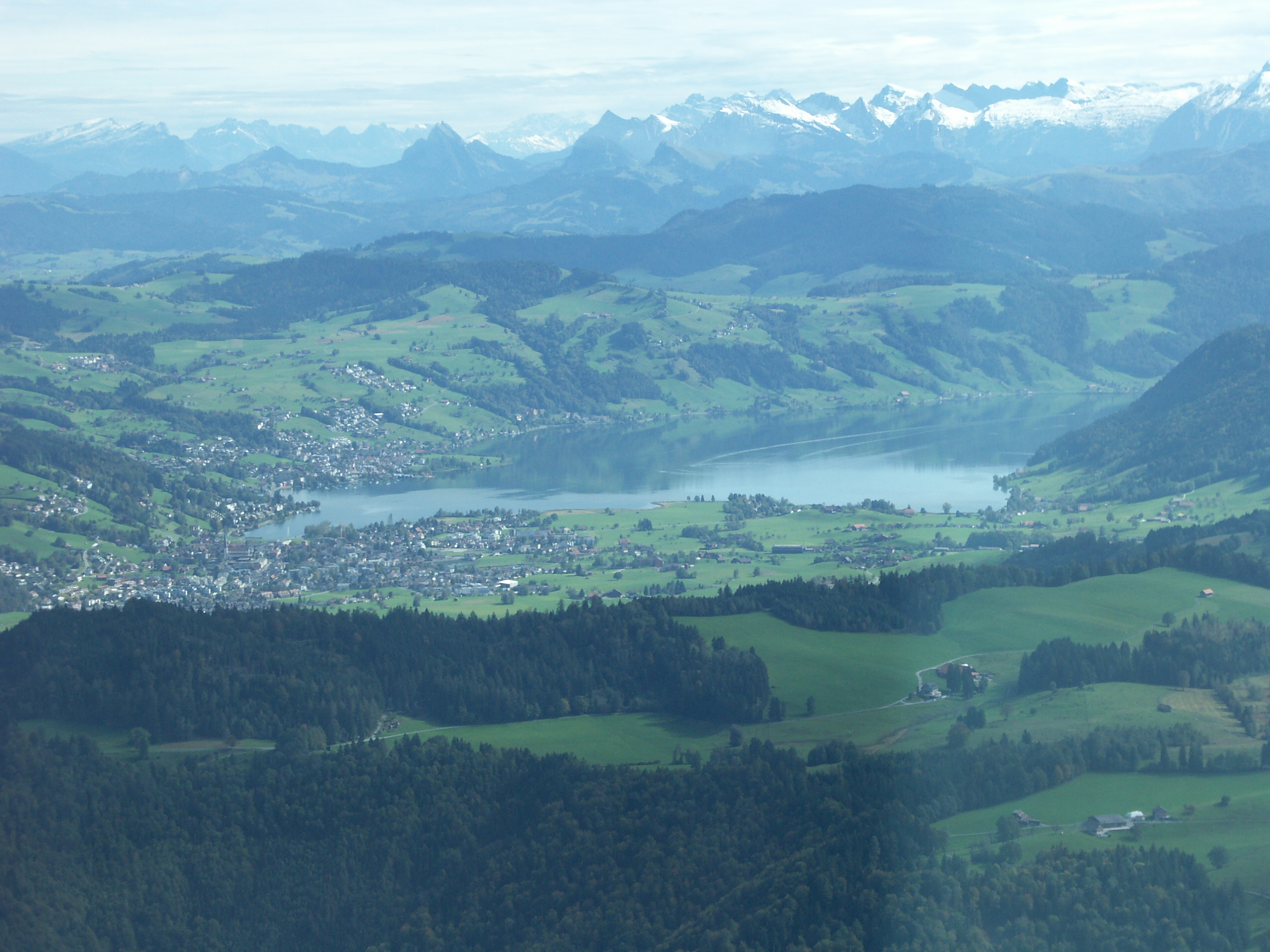 Aegerisee, Unterägeri from Ju-52_HB-HOT